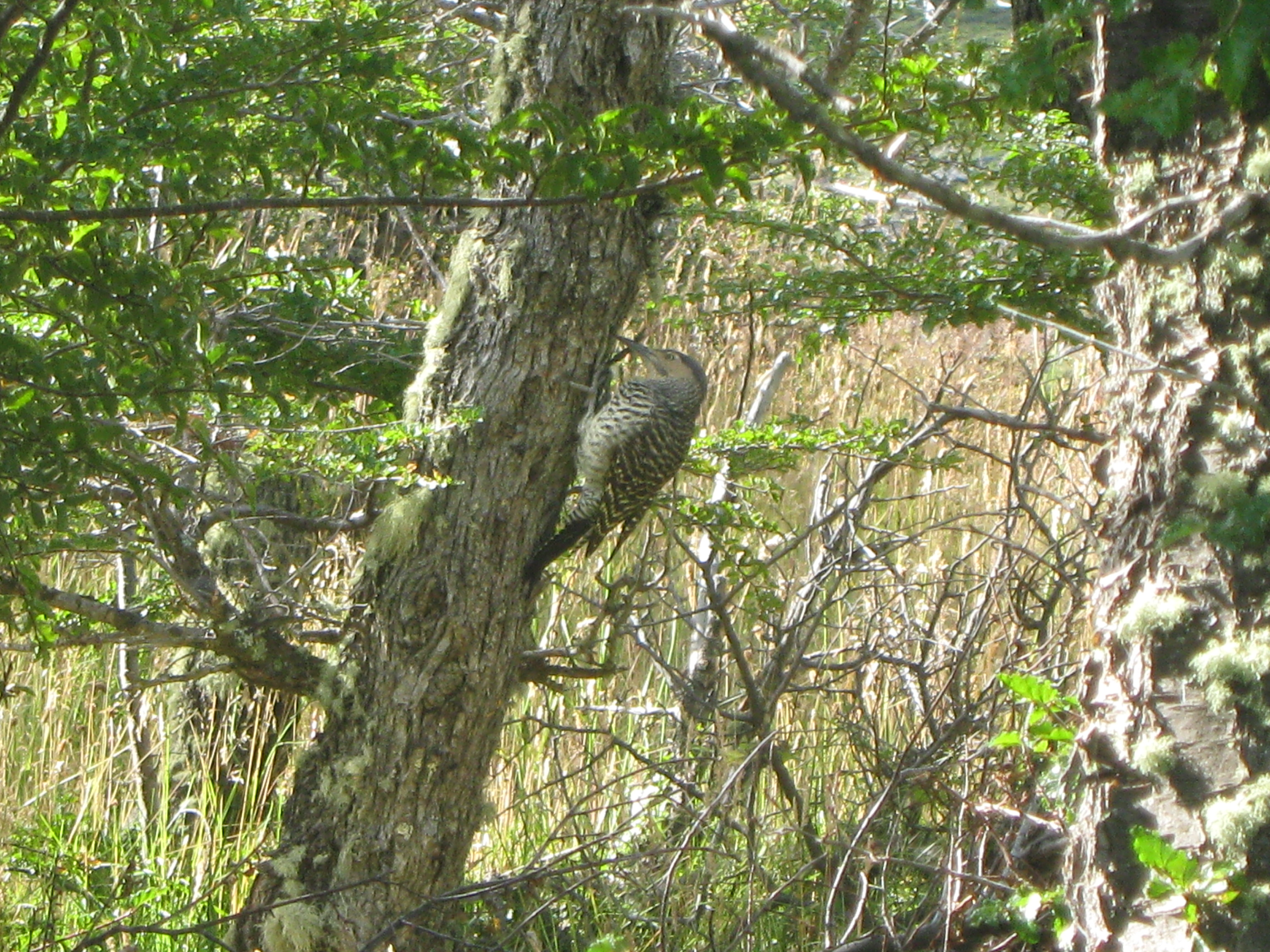 Carpenter pitius banging with its beak to a Nothofagus tree